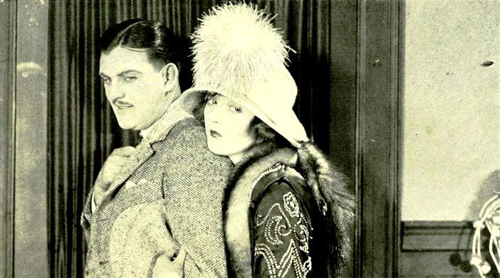 Still from the American comedy film The Foolish Age (1921) with Hallam Cooley and Doris May, on page 47 of William Lord Wright, Photoplay Writing (1922).